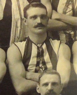 Photograph of Bill McCulloch in 1901.